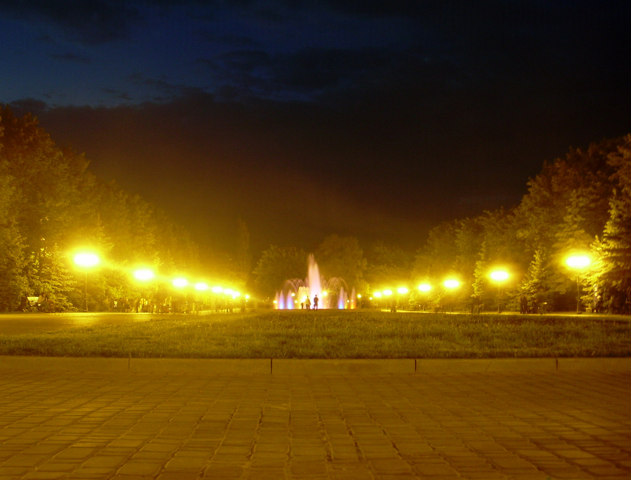 Alexandrovsky square in KhTZ district (Kharkiv) at night